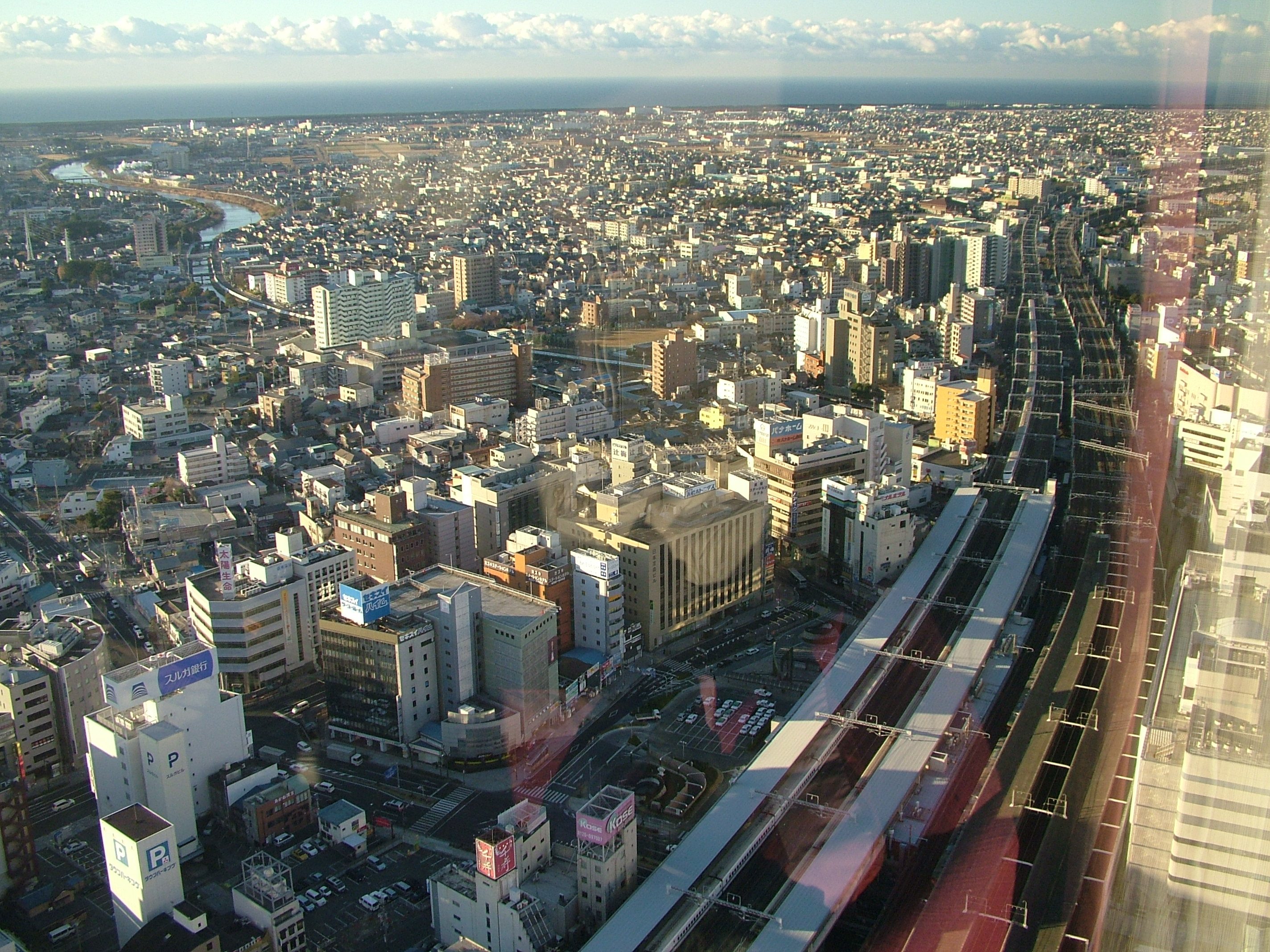 The city of Hamamatsu, Japan seen from the elevator of the Okura Act City Hotel. The tracks of the Tokaido Shinkansen wind through the city.